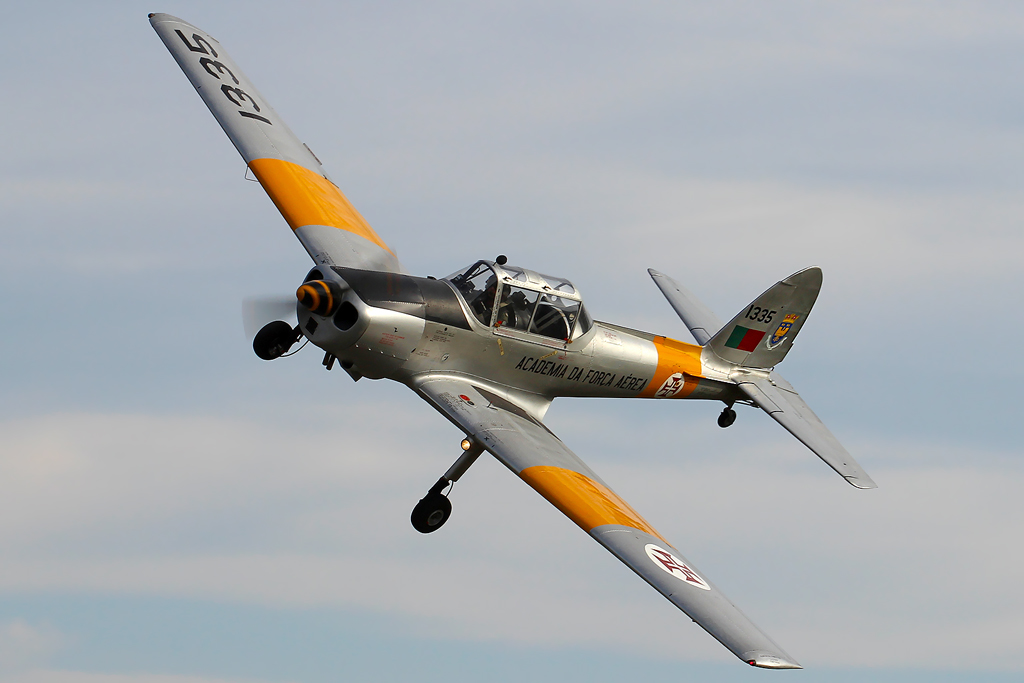 Portuguese Air Force Academy Supermunk at Beja Air Force Base.